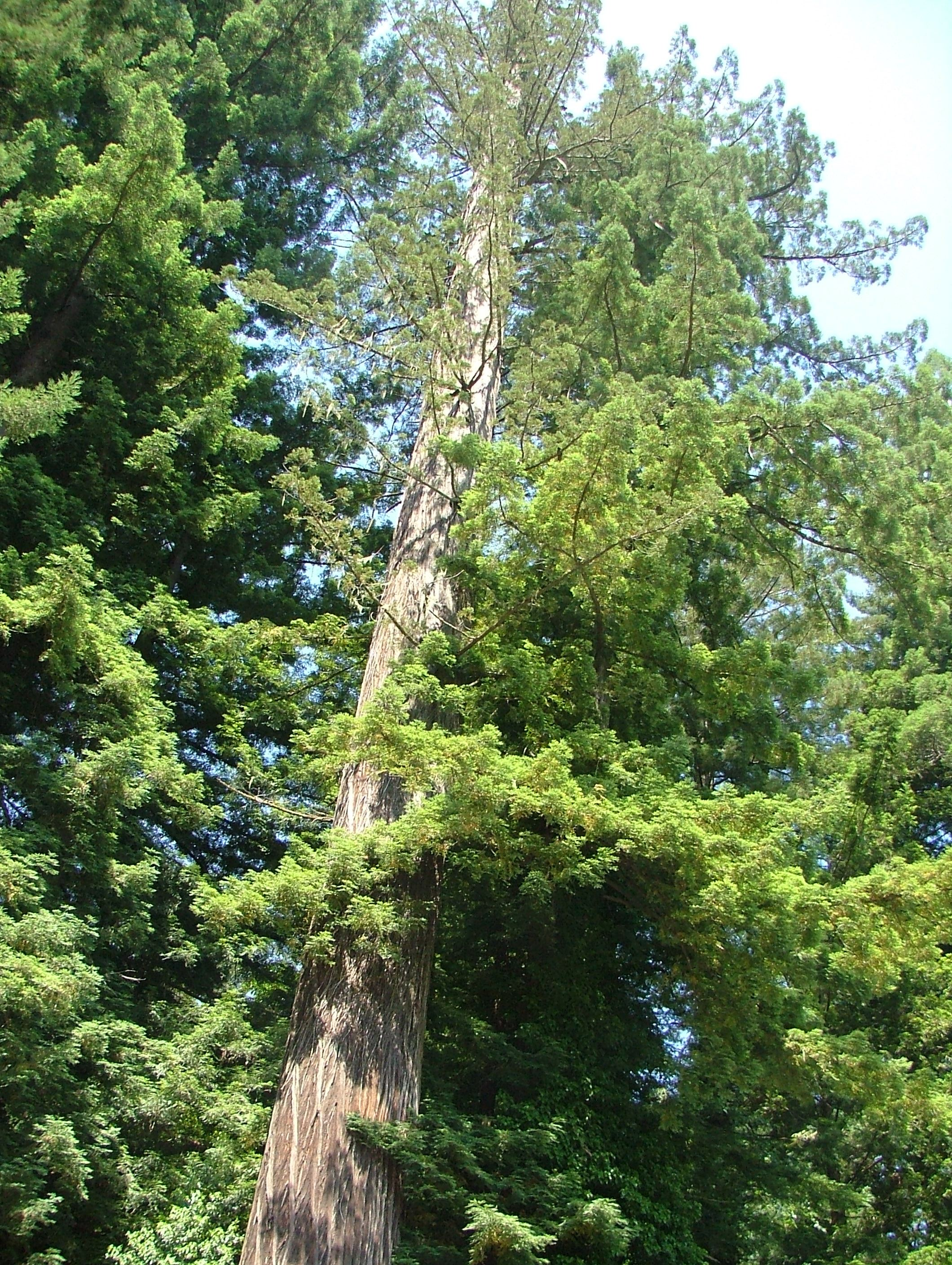 Upper part of Immortal Tree, Humboldt Redwood State Park, California